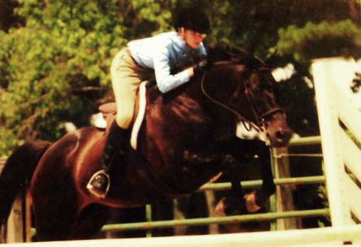 Uploaded by LochNessDonkey. Personal picture, free use within Wikipedia.